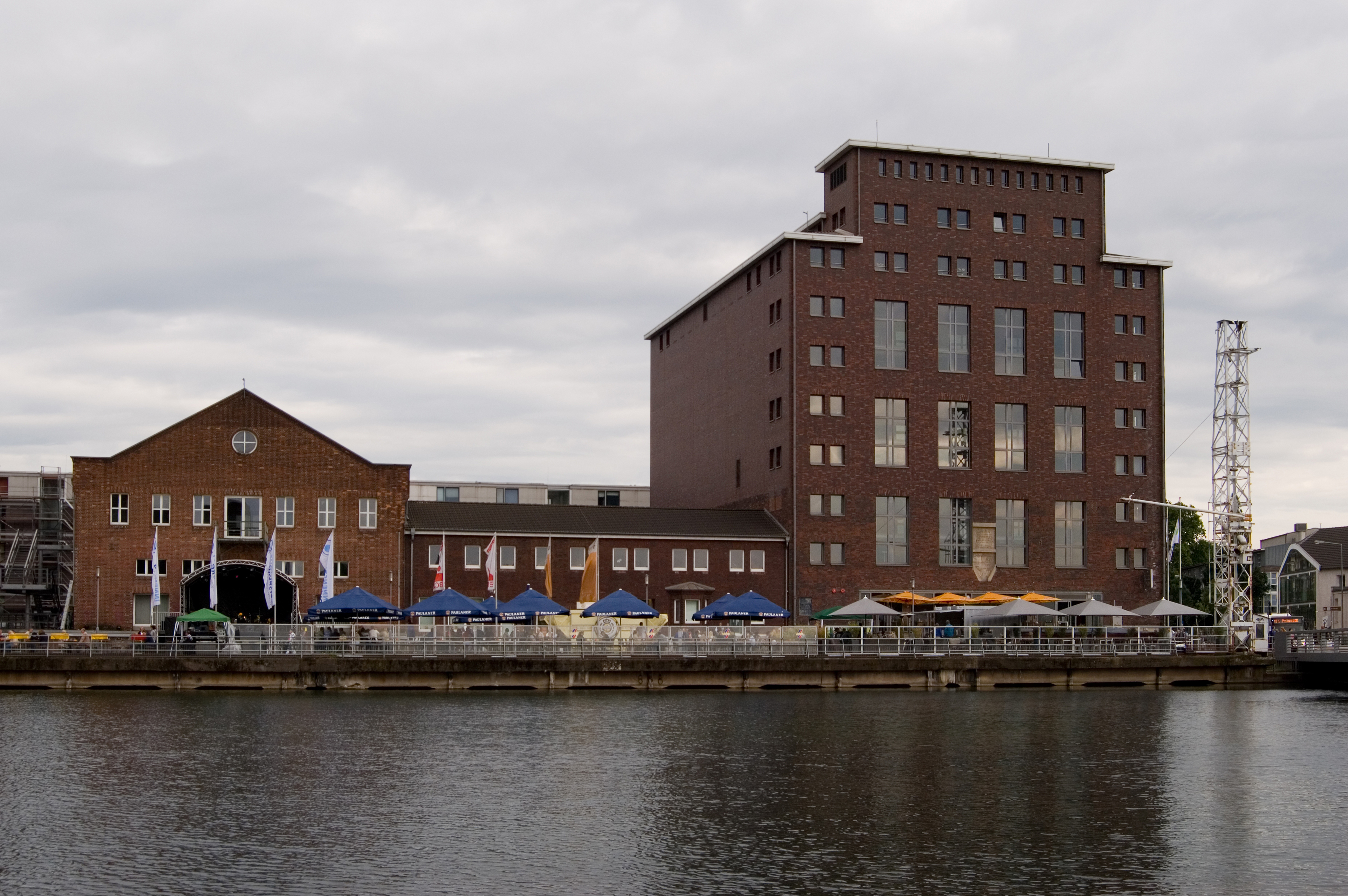 Duisburg (North Rhine-Westphalia, Germany) – Inner Harbour – buildings Speicher Allgemeine on the the right and the Hafenforum on the left This image shows a heritage building in Germany, located in the North Rhine-Westphalian city Duisburg (no. 19). This photograph was taken with a Nikon D3000